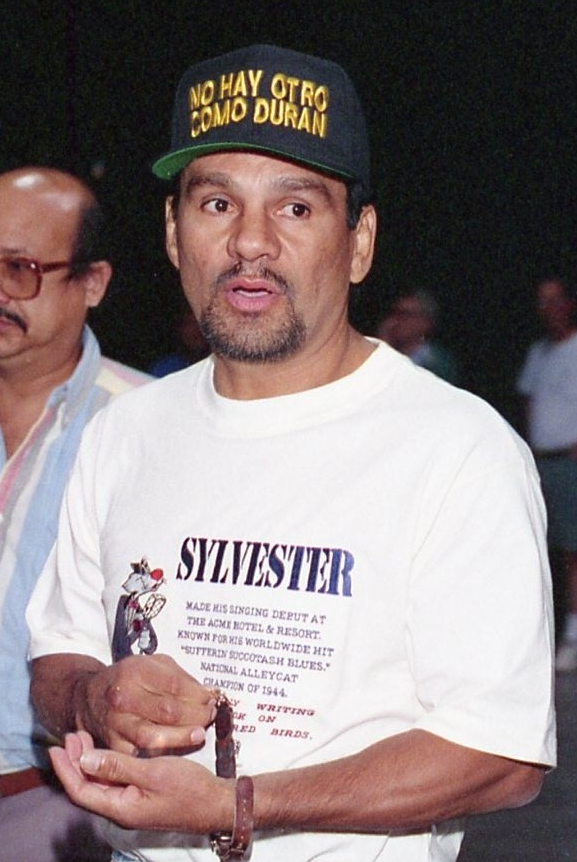 Roberto Duran preparing to fight Vinny Pazienza in Vegas 1994